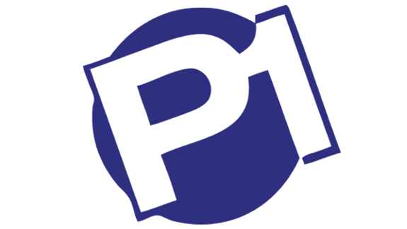 Logo Polonia 1.